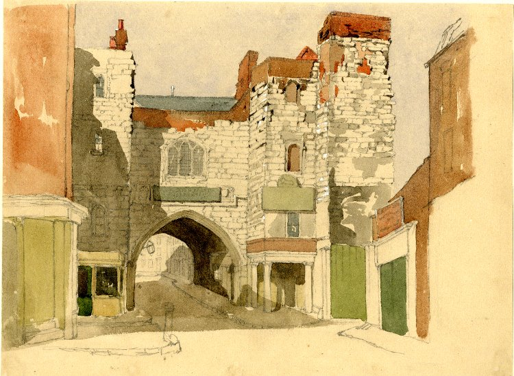 "St John's Gate, Clerkenwell," watercolour with bodycolour over graphite, by the British painter and printmaker John Wykeham Archer. 257 mm x 347 mm. Courtesy of the British Museum, London.